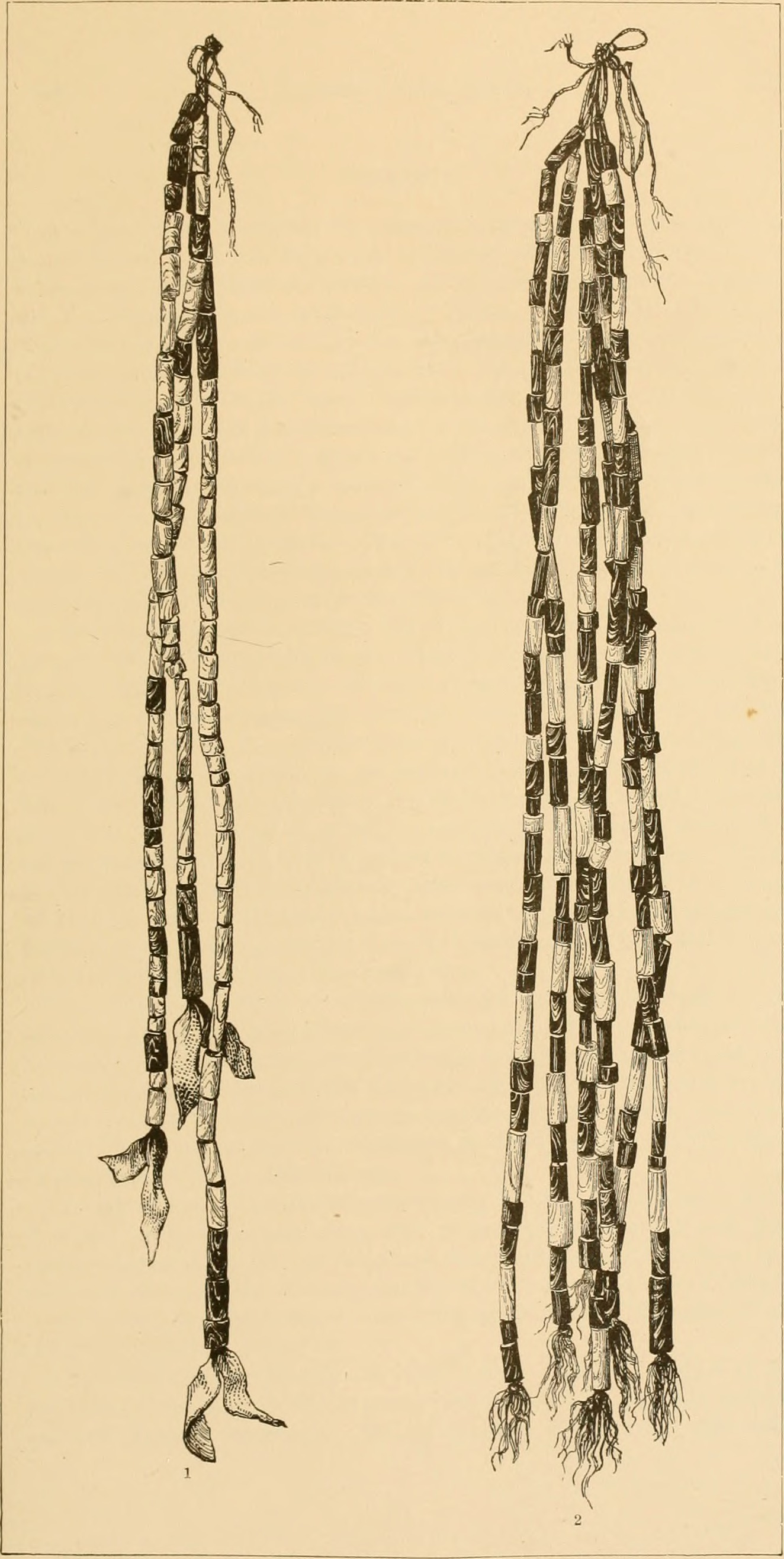 Title: Annual report of the Bureau of Ethnology to the Secretary of the Smithsonian Institution Identifier: annualreportofbu218801882smit Year: 1880 (1880s) Authors: Smithsonian Institution. Bureau of Ethnology Subjects: Ethnology; Indians Publisher: Washington : G. P. O. Text Appearing Before Image: BUBKAU OF KTHNOLOr.y ANSUAL UEPORT 1881 PL. XLIV Text Appearing After Image: 1. Name of New Chief. 2. "Mohawk.' STWXGS OF WAMPUM.